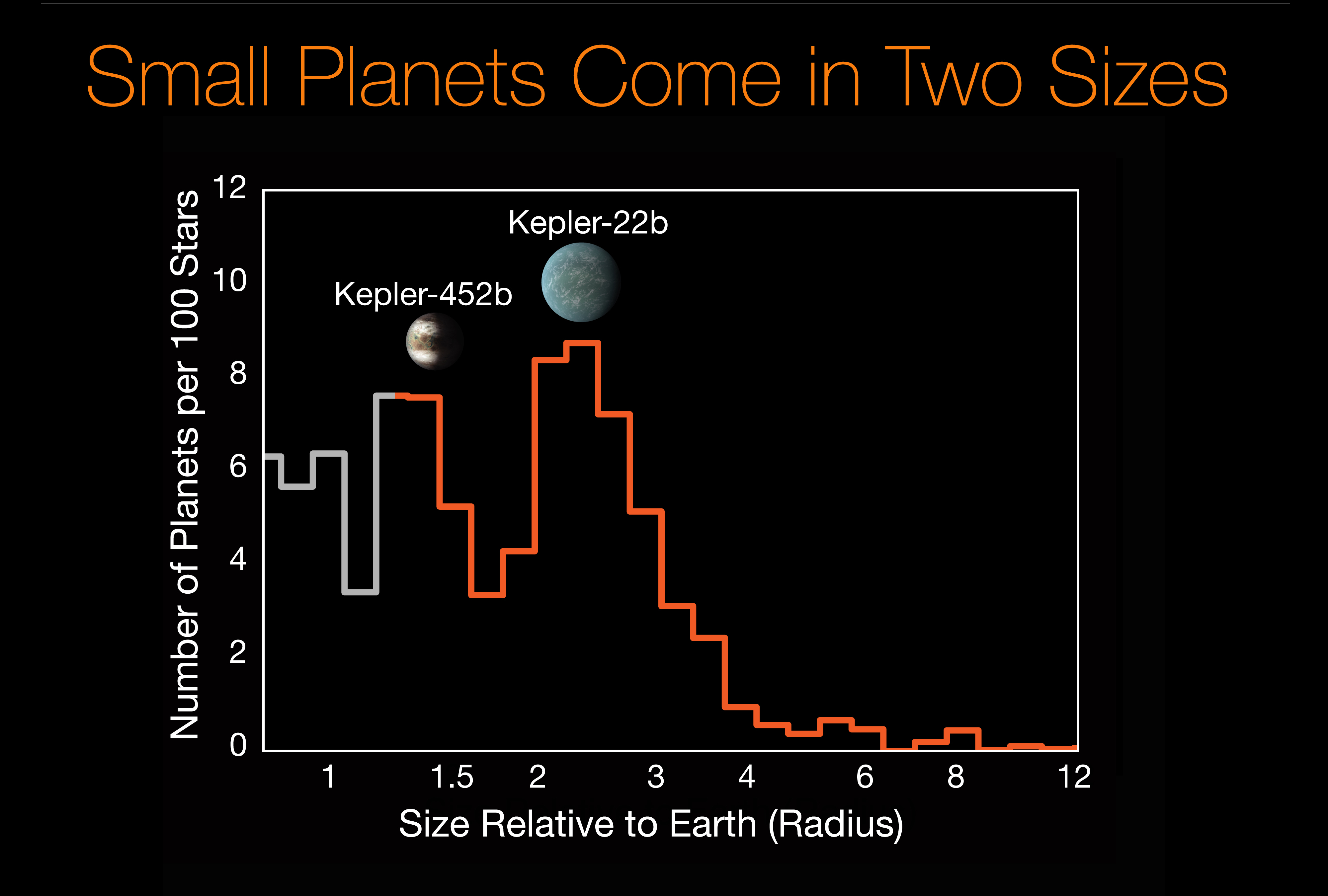 June 19, 2017 Small Planets Come in Two Sizes Researchers using data from the W. M. Keck Observatory and NASA's Kepler mission have discovered a gap in the distribution of planet sizes, indicating that most planets discovered by Kepler so far fall into two distinct size classes: the rocky Earth-size and super-Earth-size (similar to Kepler-452b), and the mini-Neptune-size (similar to Kepler-22b). This histogram shows the number of planets per 100 stars as a function of planet size relative to Earth.